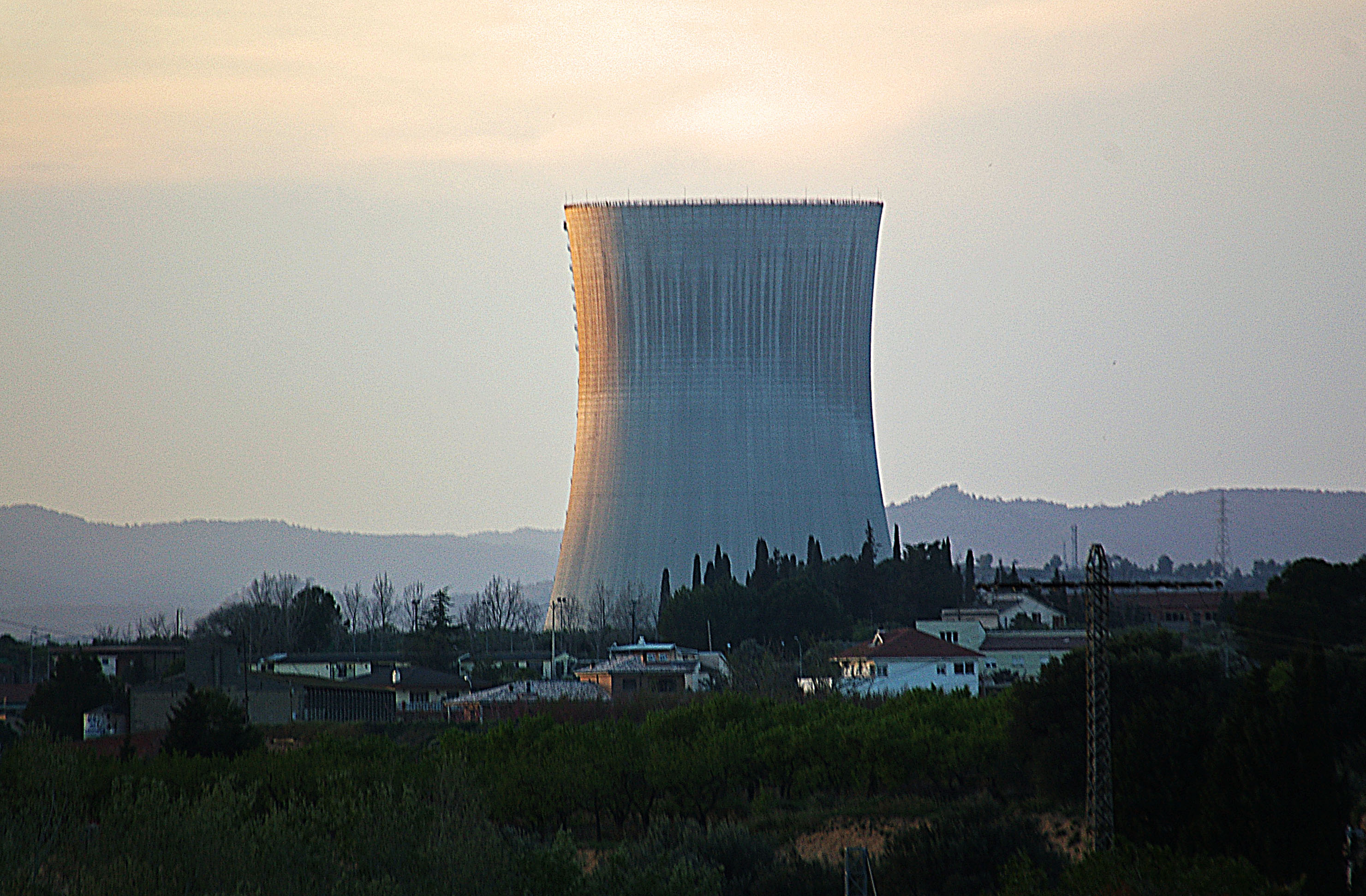 View of the cooling tower of the Ascó nuclear power plant